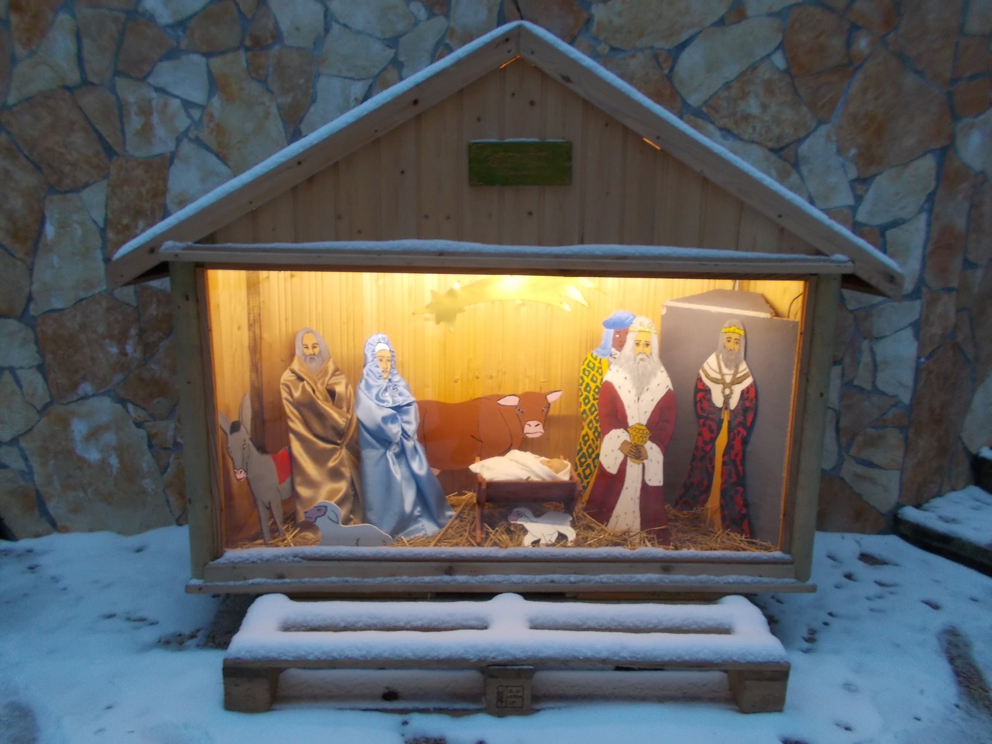 Nativity scene in the yard of Arany János elementary school and high school, a practising shcool for Eötvös Loránd University Faculty of Training school. - Meredek Street, Sashegy, Hegyvidék, Budapest.